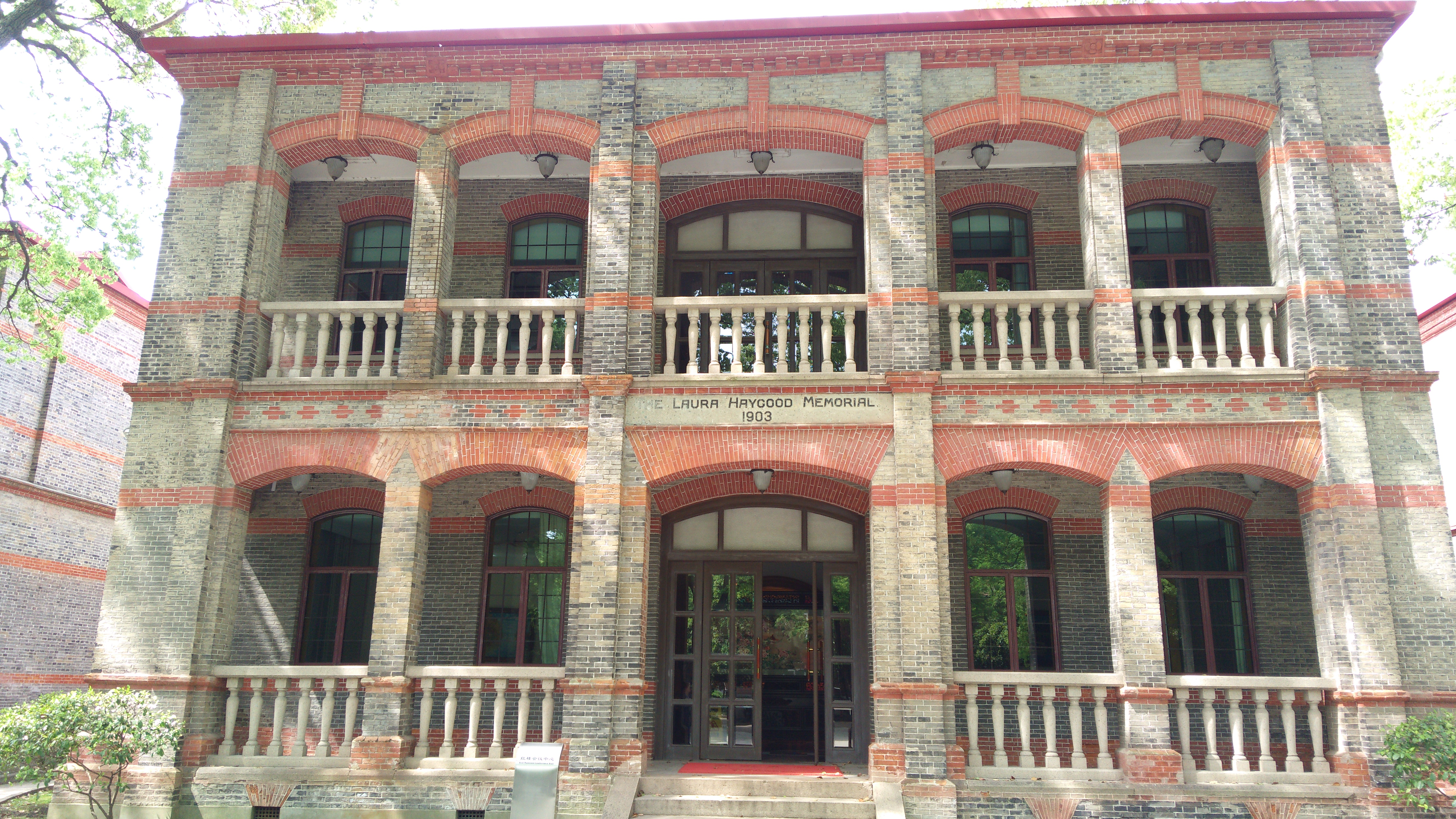 Gusu, Suzhou, Jiangsu, China